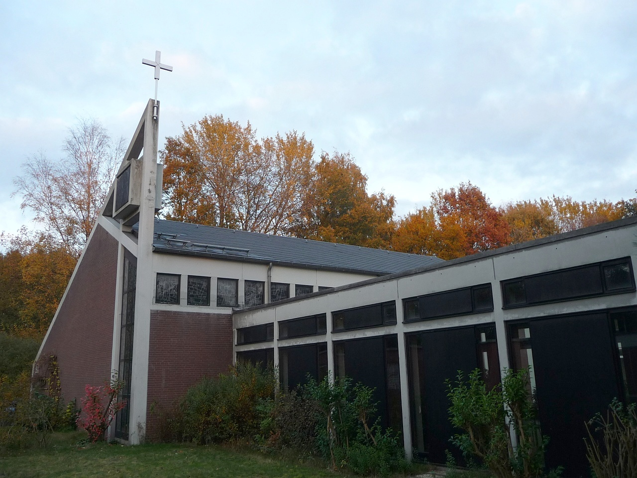 church St. Johannes in Bremen-Huchting